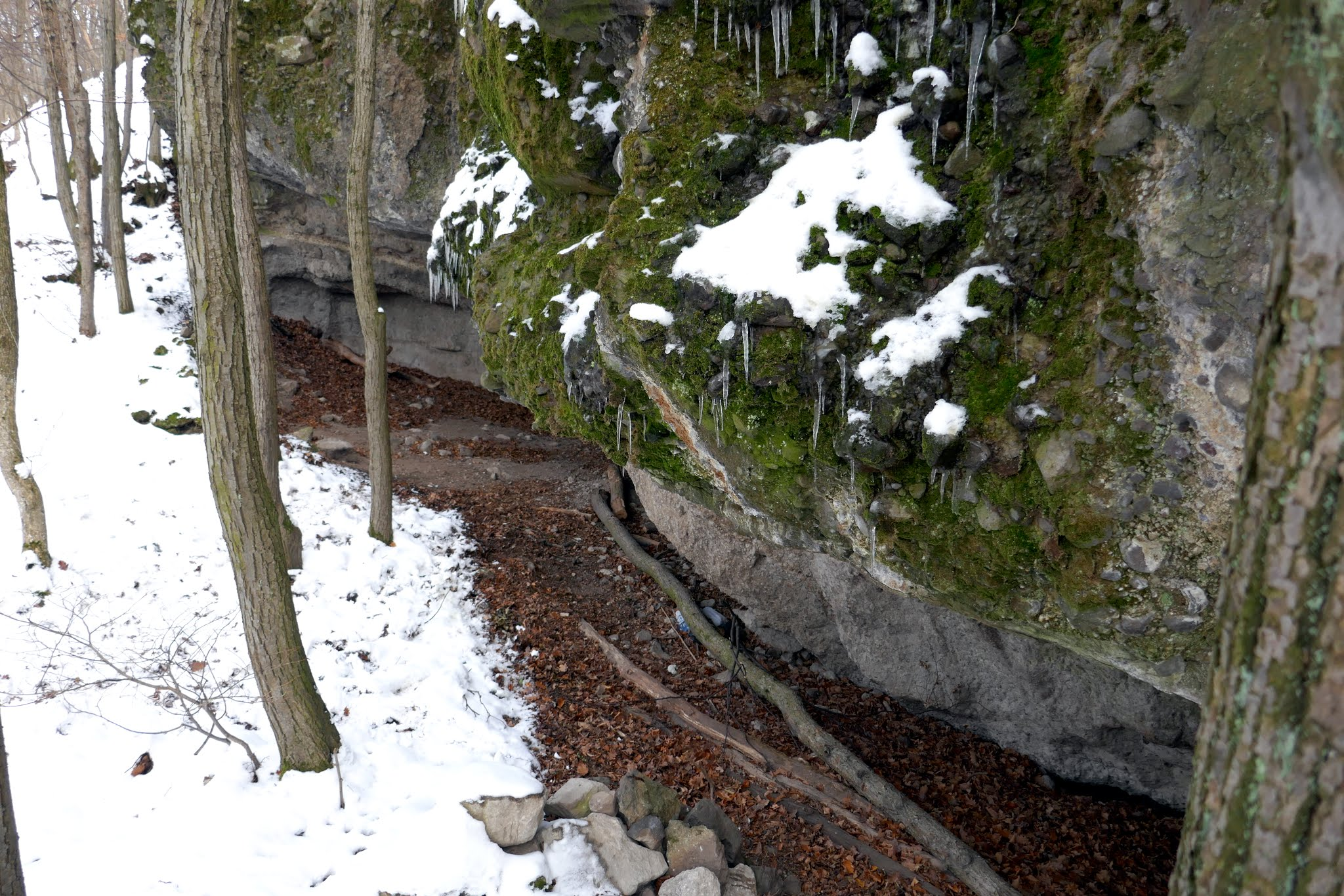 The Macska Hole in Szentendre.